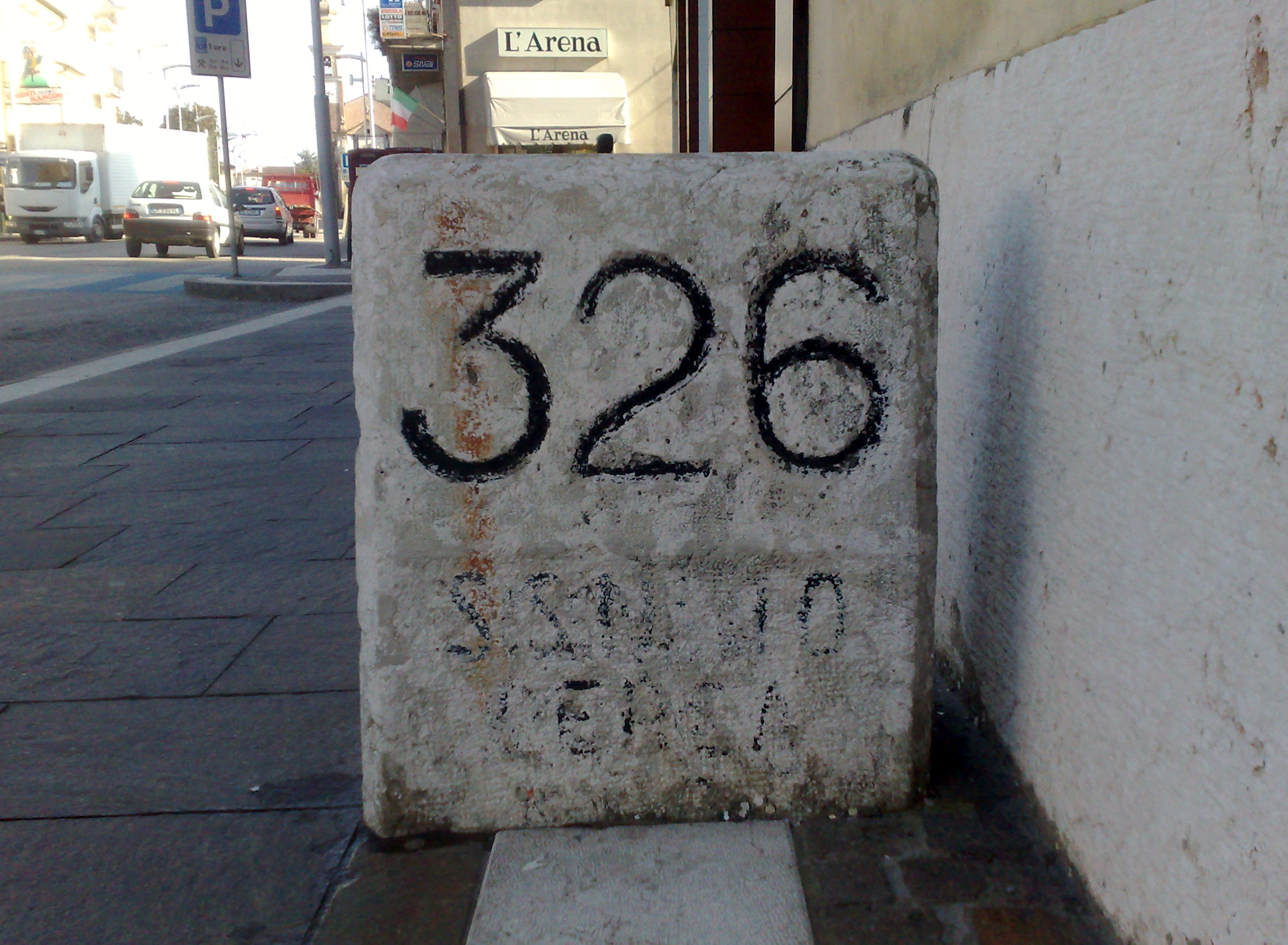 326th kilometer of 10 statal street "Padana Inferiore" in Italy, in the center of Cerea